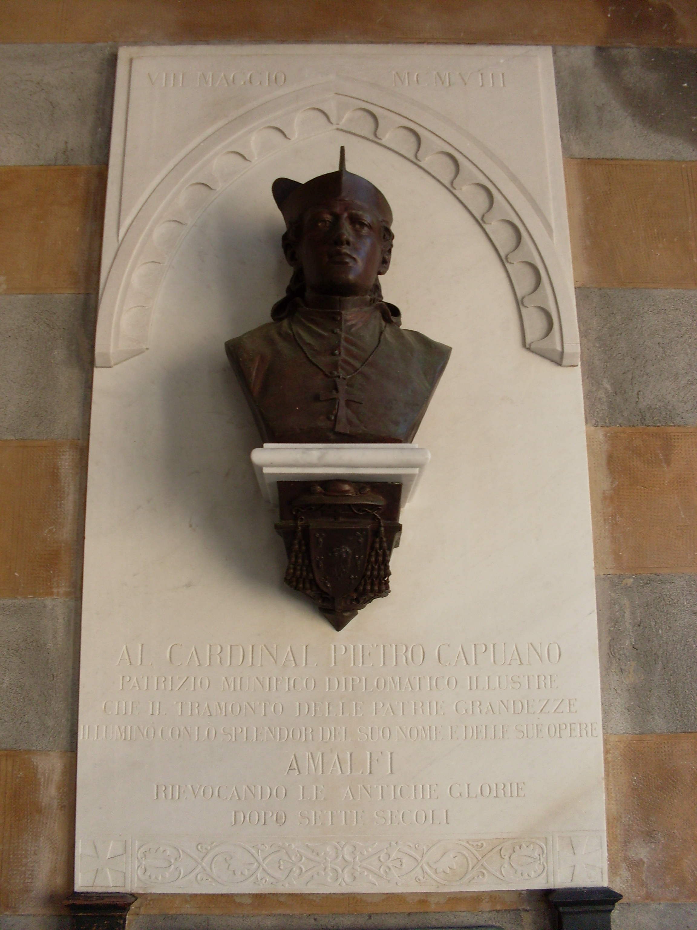 Bust in honour of Pietro Capuano in Amalfi Busto in onore di Pietro Capuano ad Amalfi